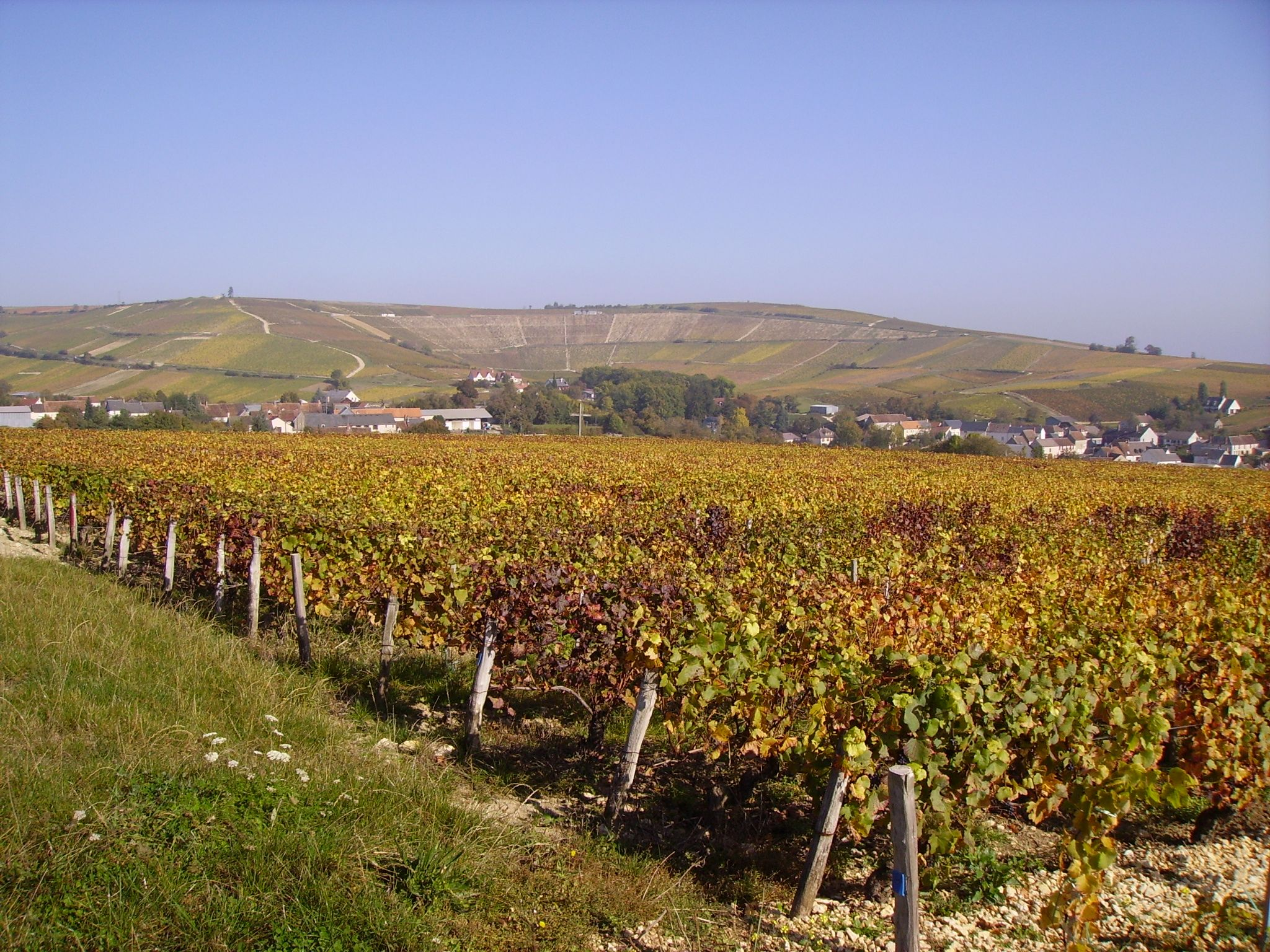 Cirque of the village of Bué (visible in the distance) near Sancerre. Photo taken on the occasion of the 30th edition of Vineyard rally in 2007.